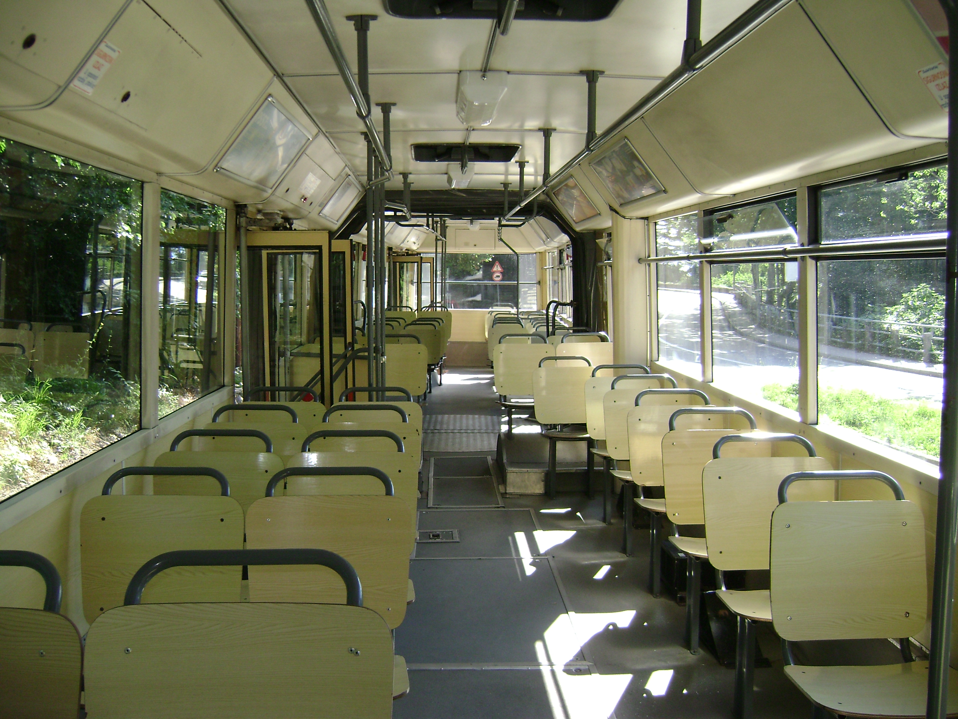 MAN SG240 Avtomontaža bus interior in Croatia.